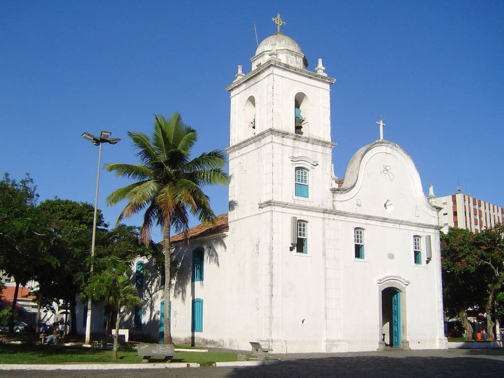 Saint Anne Church, Itanhaem, Brazil